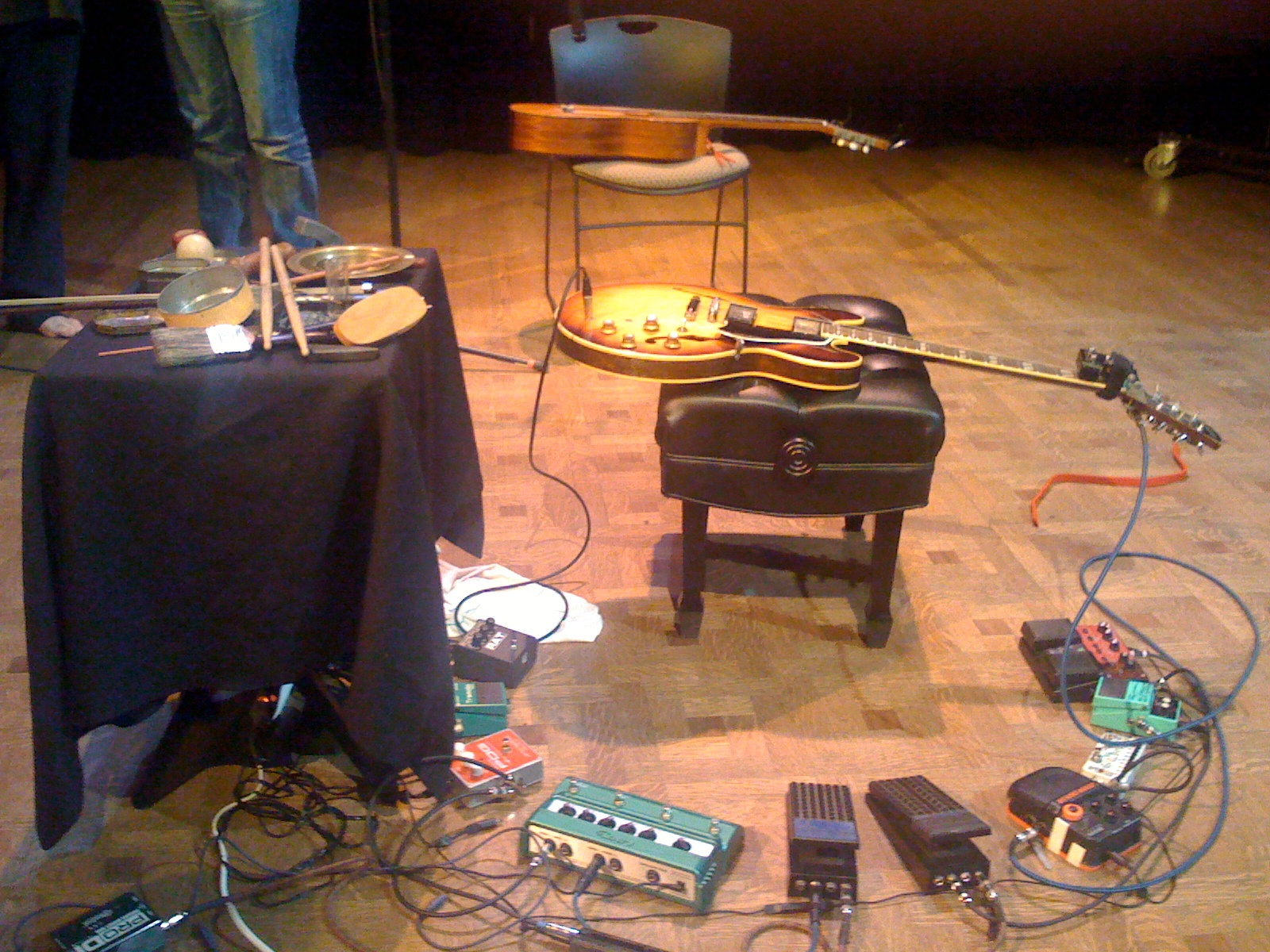 Fred Frith's setup, Wallingford, Seattle, 2009-04-25.